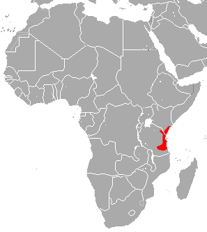 Decken's Horseshoe Bat (Rhinolophus deckenii) range